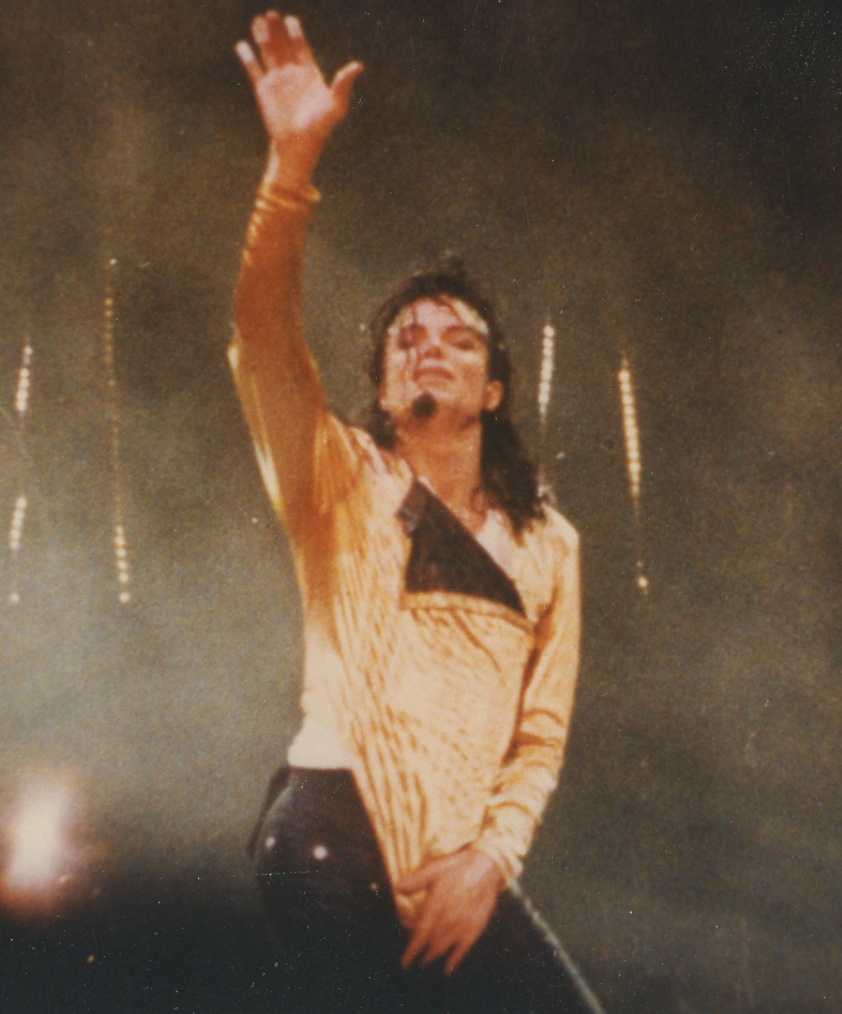 Michael Jackson live "Dangerous Tour" in Monza (Italy) 06/07/1992